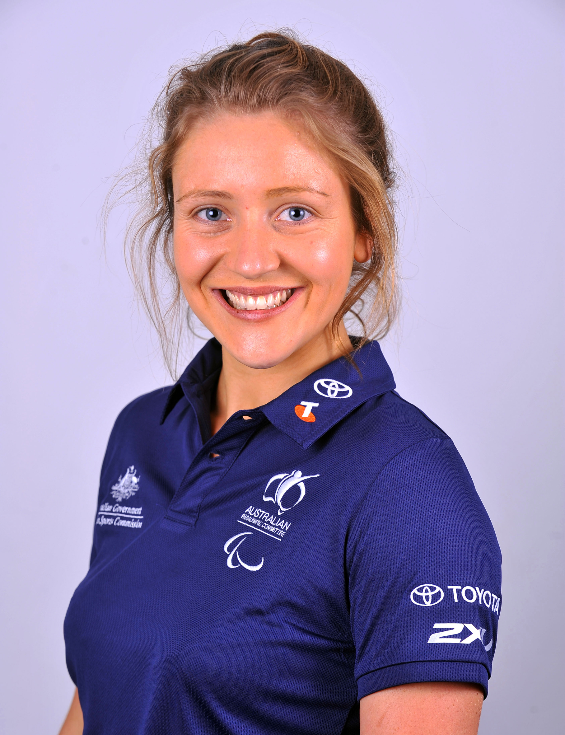 Portrait of Australian swimmer Annabelle Williams, 2012 Australian Paralympic (shadow) Team athlete